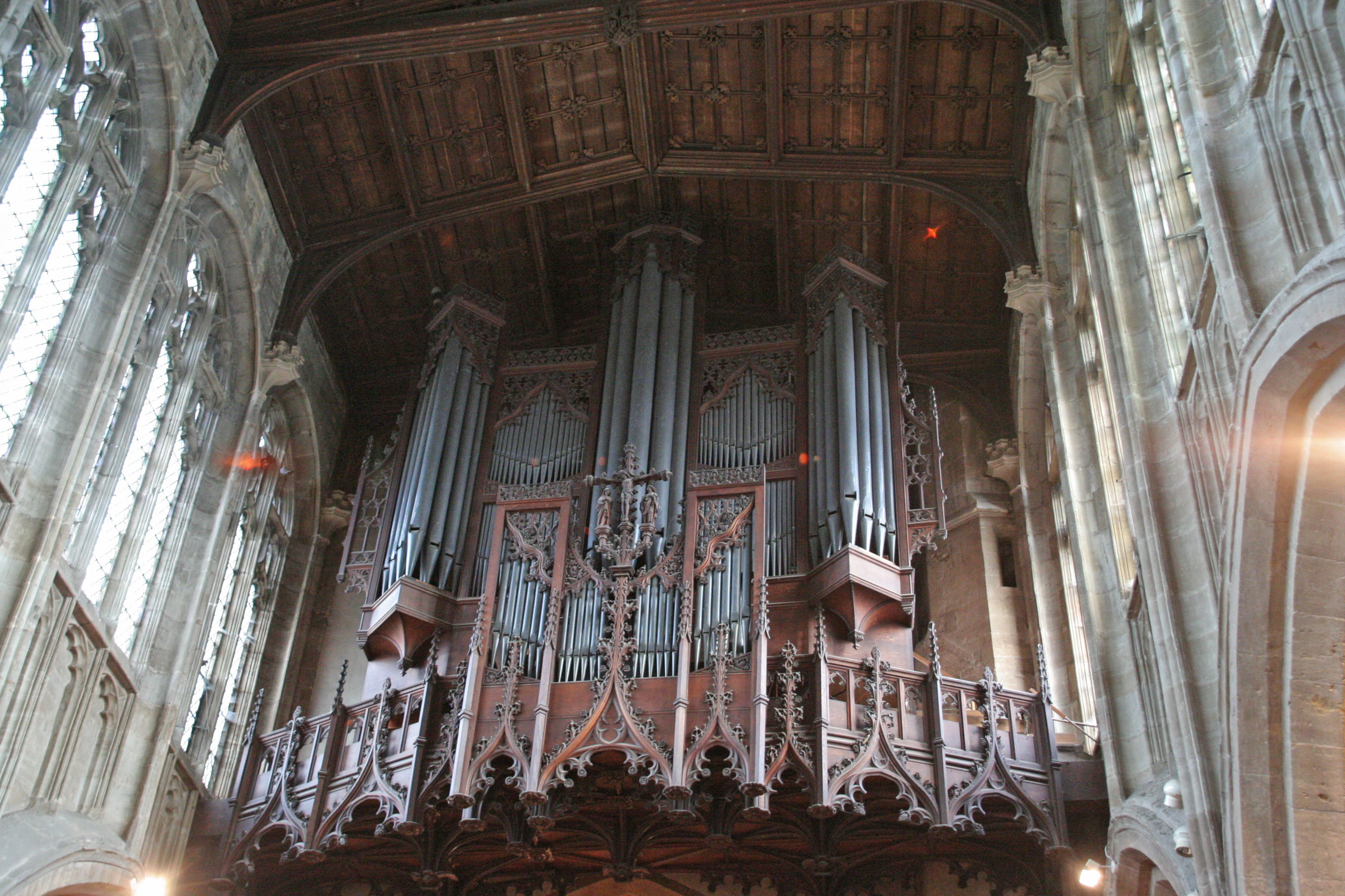 Church of the Holy Trinity Stratford - Organ